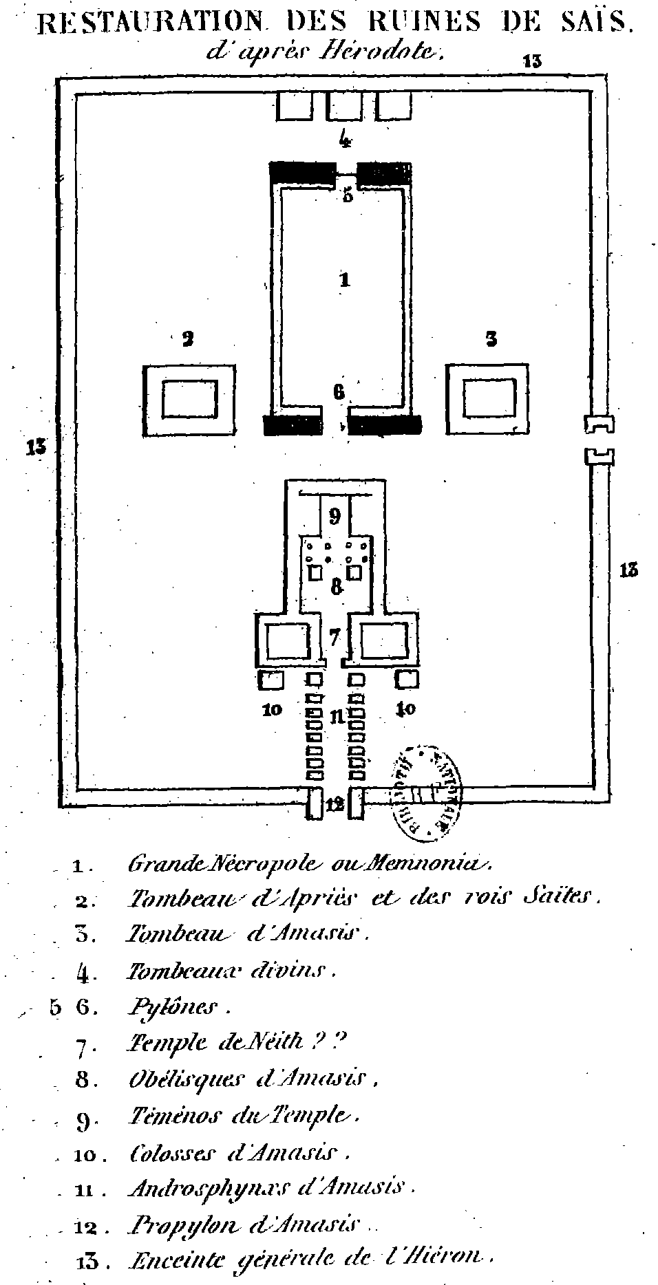 Restoration of the ruins of Sais, according to Herodotus. Drawing by Jean-François Champollion.